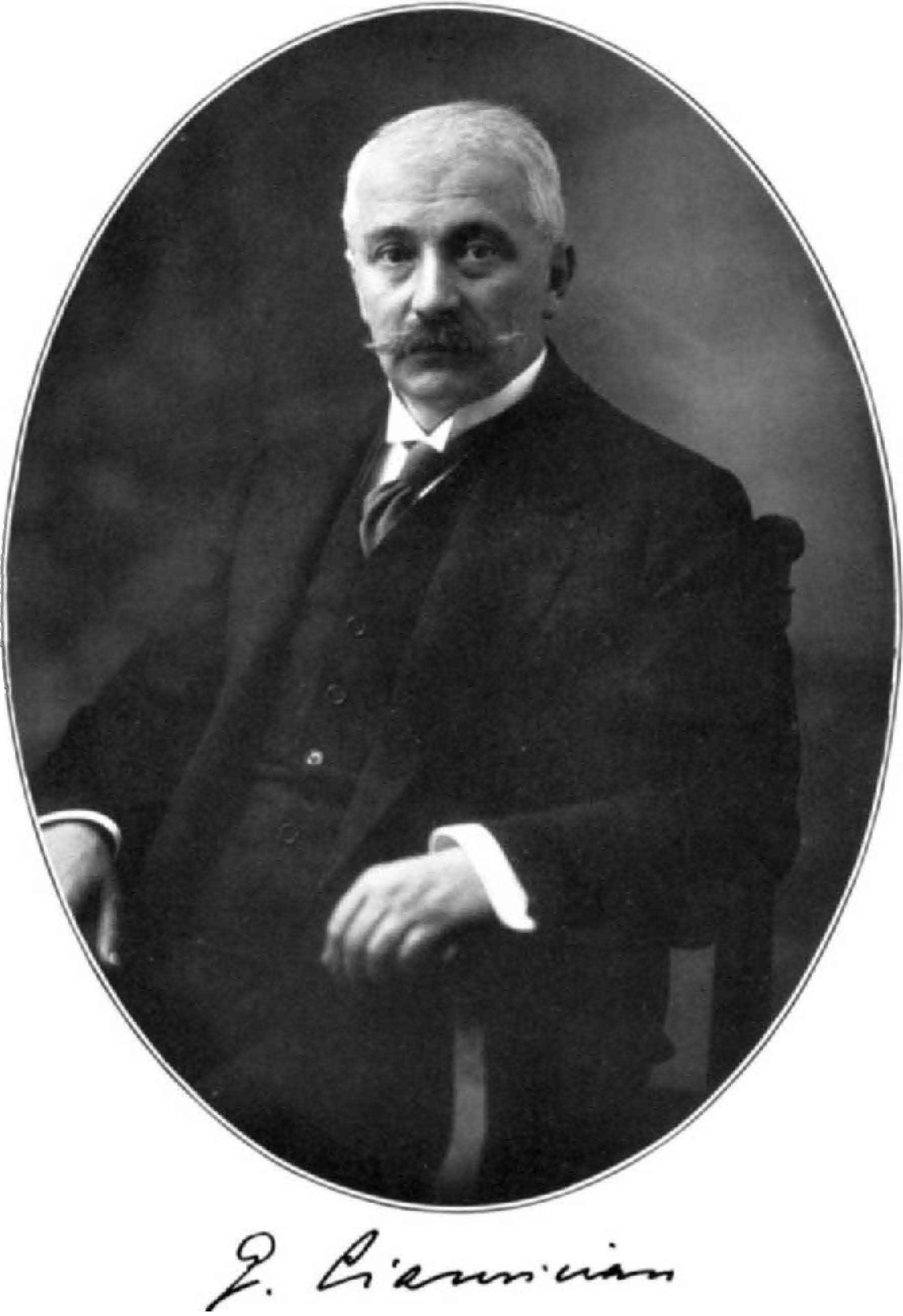 Giacomo Luigi Ciamician (August 25, 1857 – January 2, 1922)